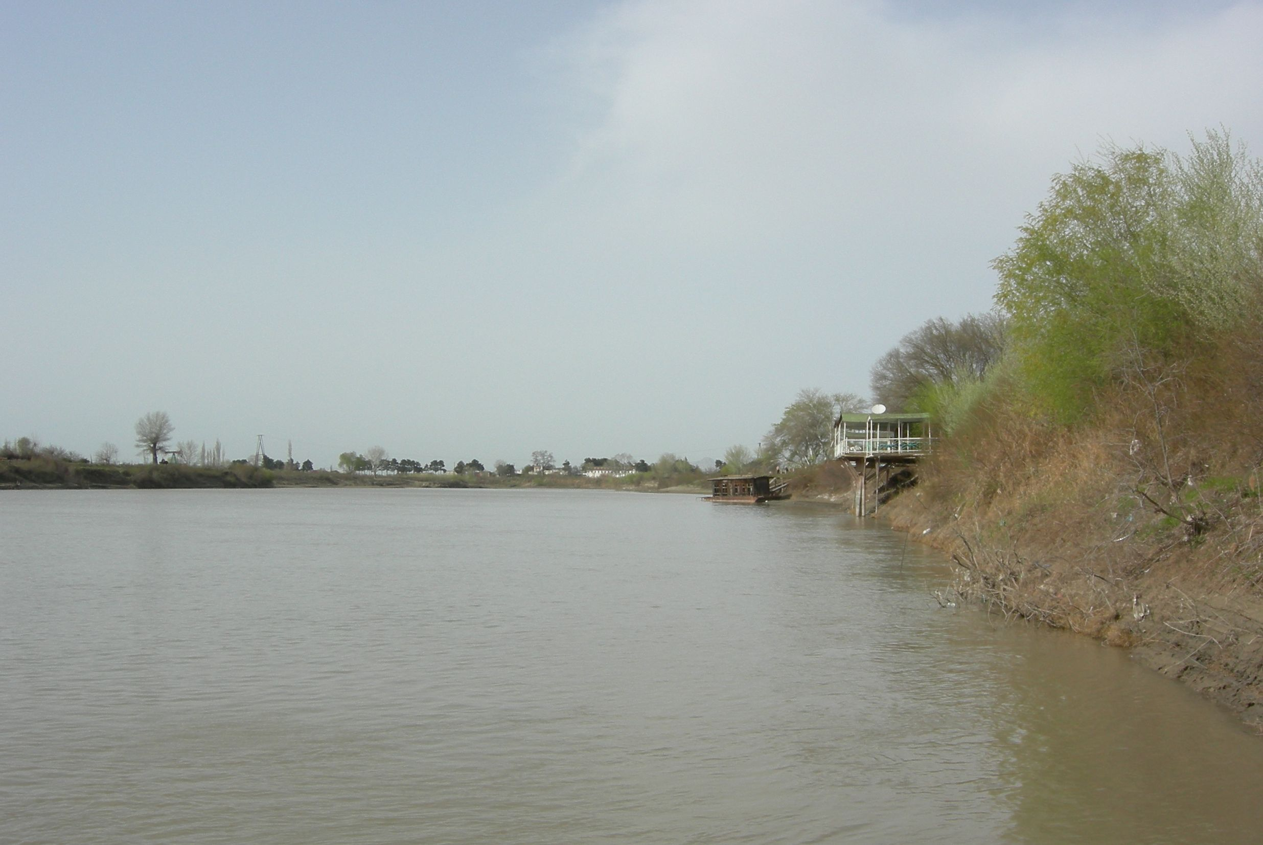 Kura (Kür) River at Şirvan city, Azerbaijan